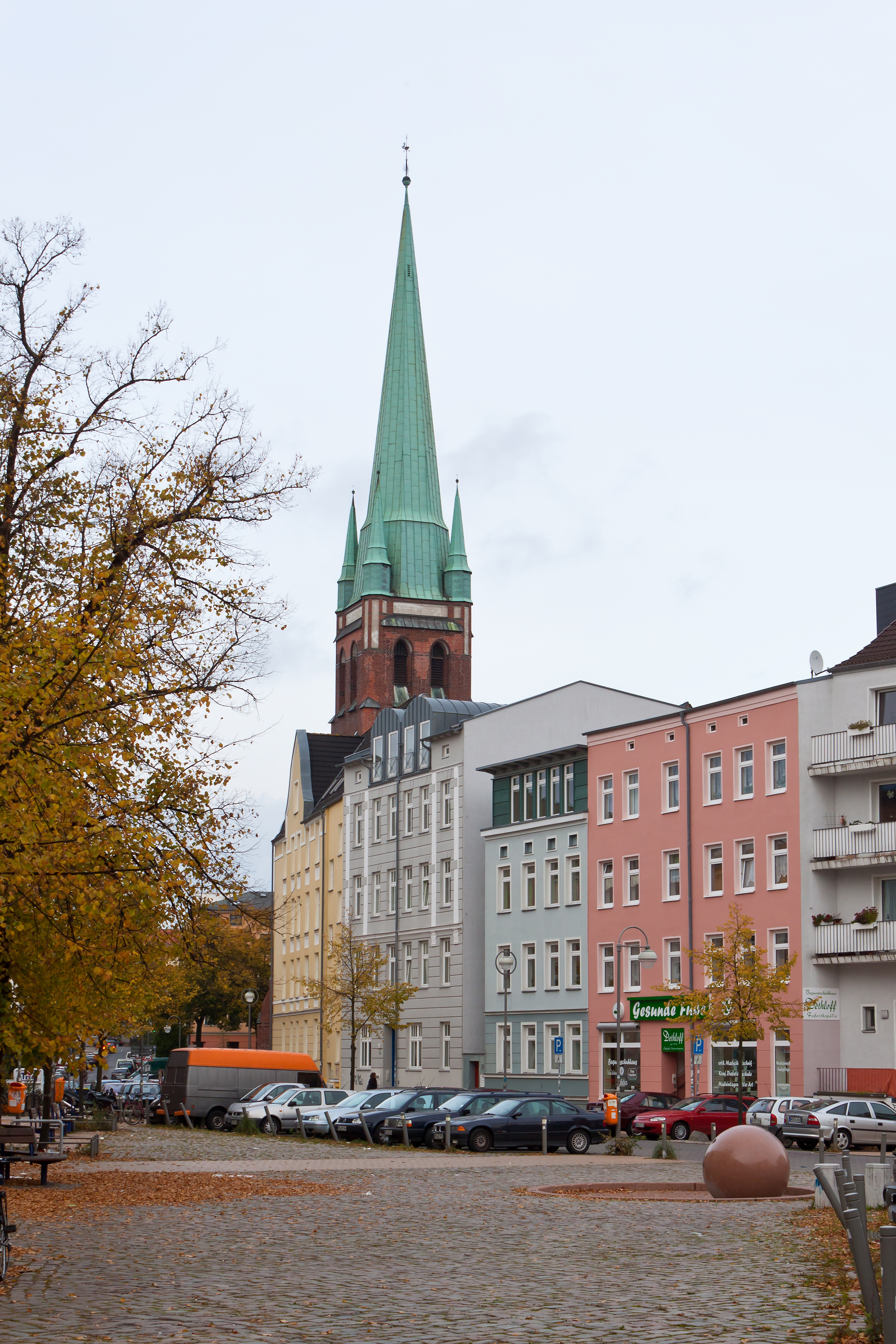 A view towards the Heiligengeistkirche (church of the Holy Spirit) from the Margaretenplatz, district of Kröpeliner Tor-Vorstadt of Rostock.